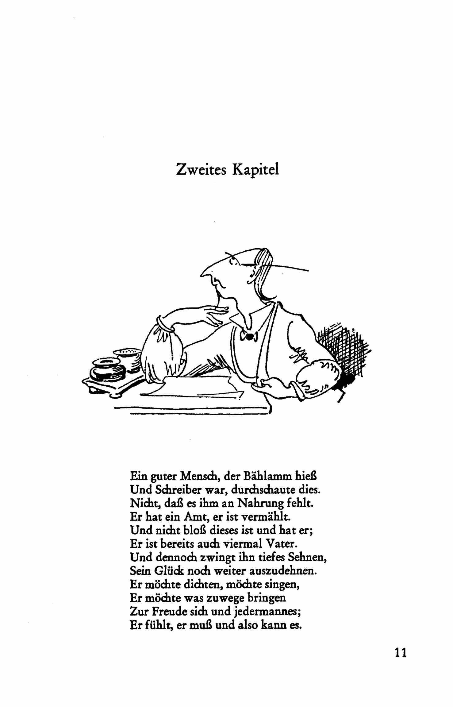 This is a scan of the historical document